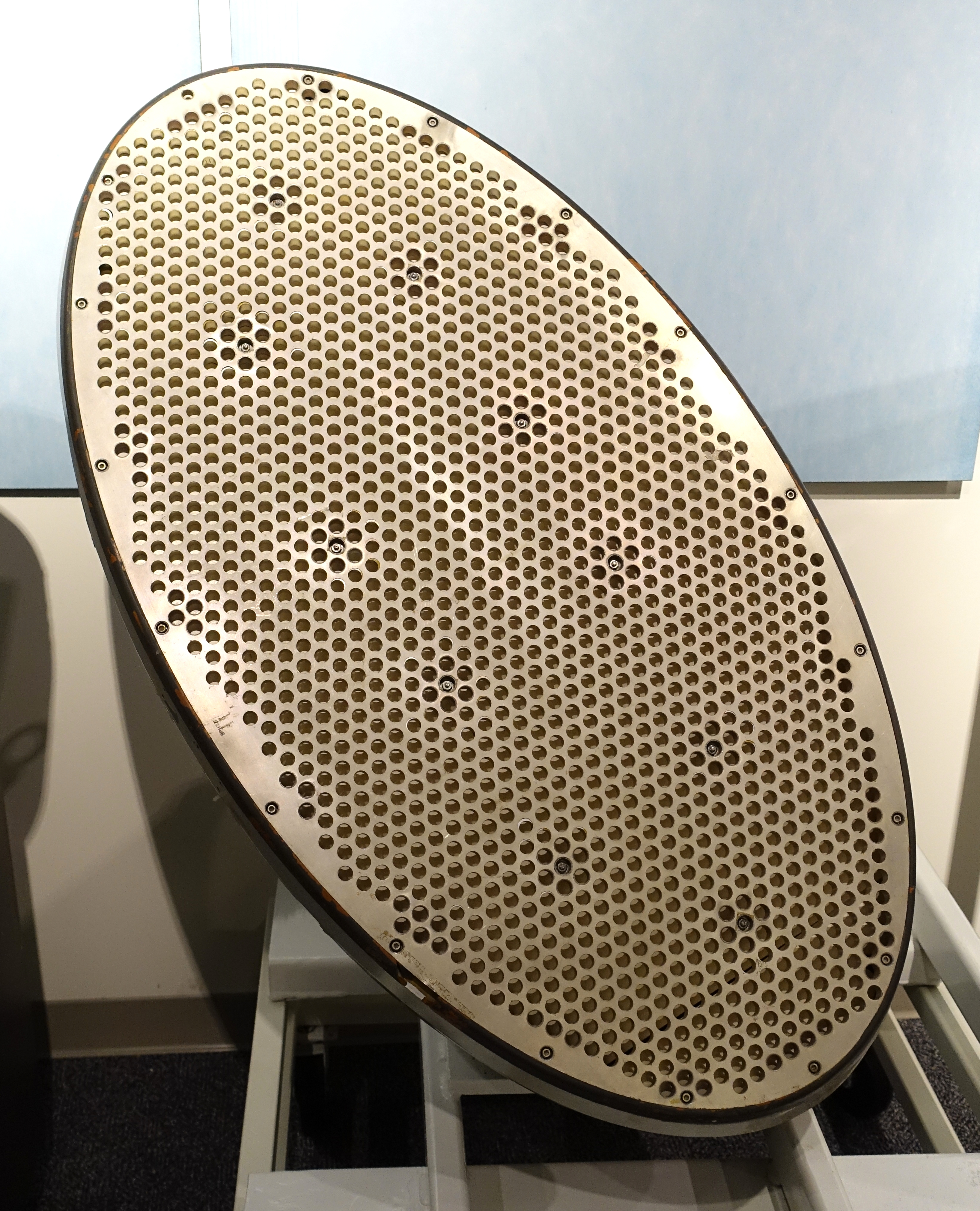 Exhibit in the National Electronics Museum, 1745 West Nursery Road, Linthicum, Maryland, USA. All items in this museum are unclassified. The museum permitted photography without restriction.